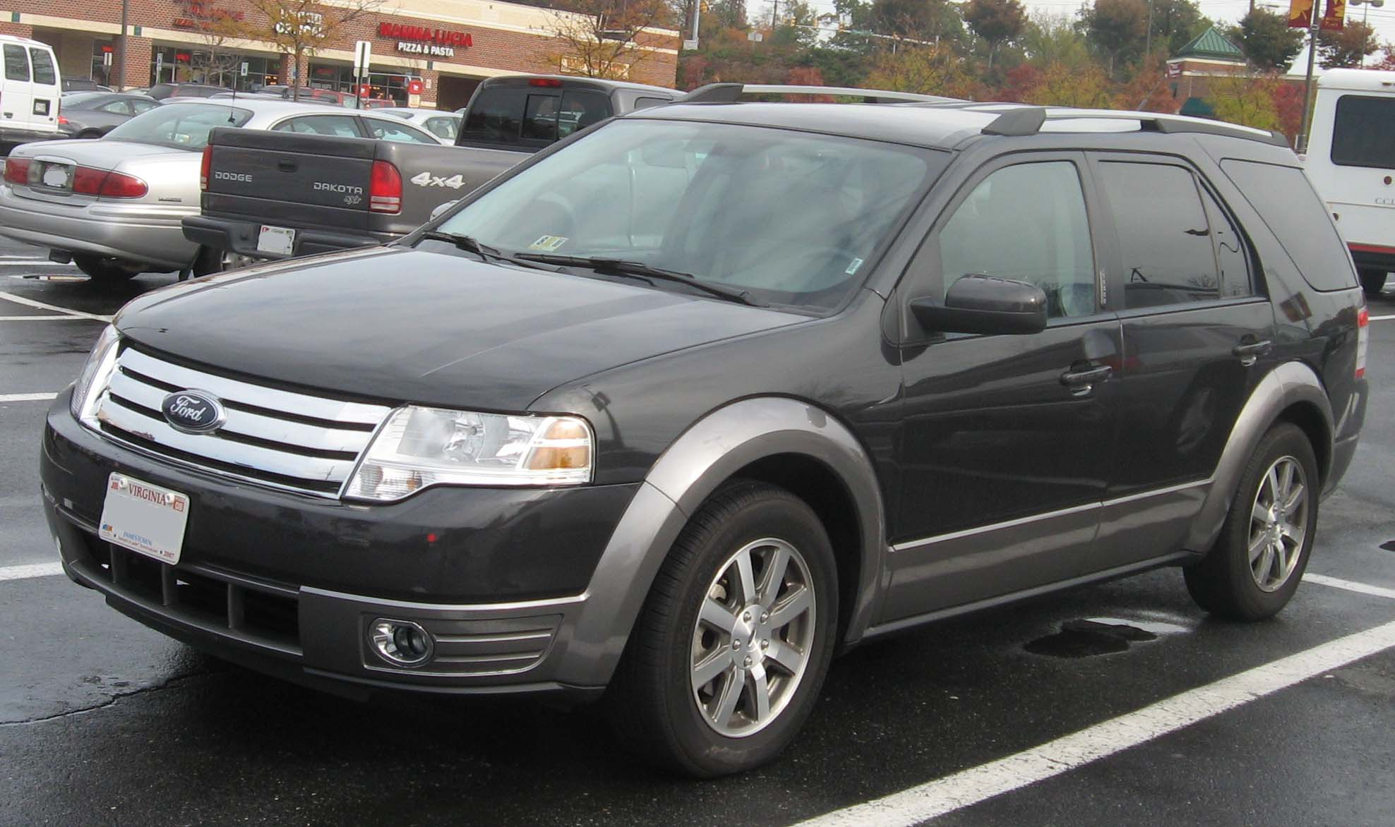 2008 Ford Taurus X photographed in College Park, Maryland, USA.